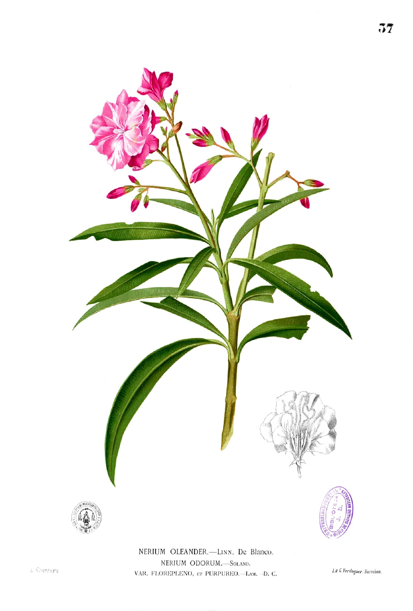 Plate from book